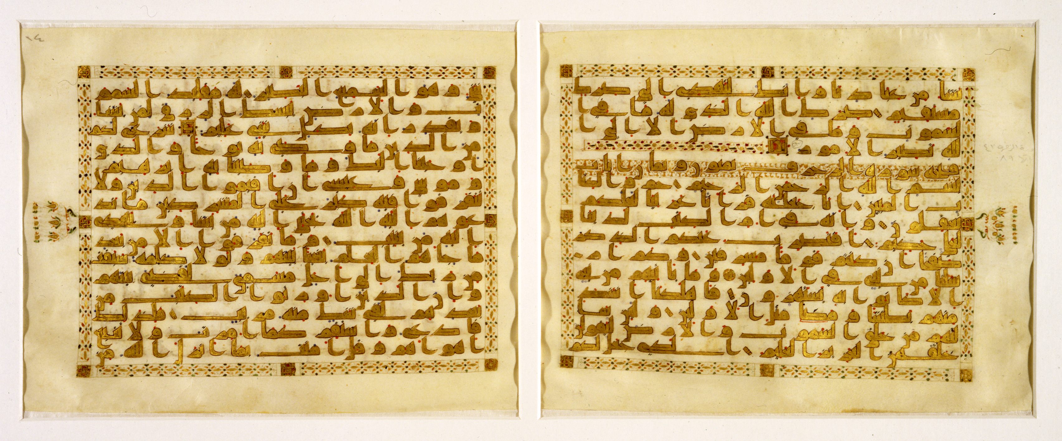 The leaves from this magnificent Koran written in gold and contoured with brown ink have a horizontal format. This is admirably suited to classical Kufi calligraphy, which became common under the early Abbasid caliphs. The length of the up and down strokes is limited, while there is a tendency to a horizontal prolongation. Vowels are indicated with colored dots, and consonant signs are found in the form of little oblique strokes. There are different kinds of markers for each verse, each fifth verse, and each tenth verse. The vase-like ornament in the margin is purely decorative. The designation Kufi comes from the Iraqi city of Kufa, where this script was erroneously believed to have originated.